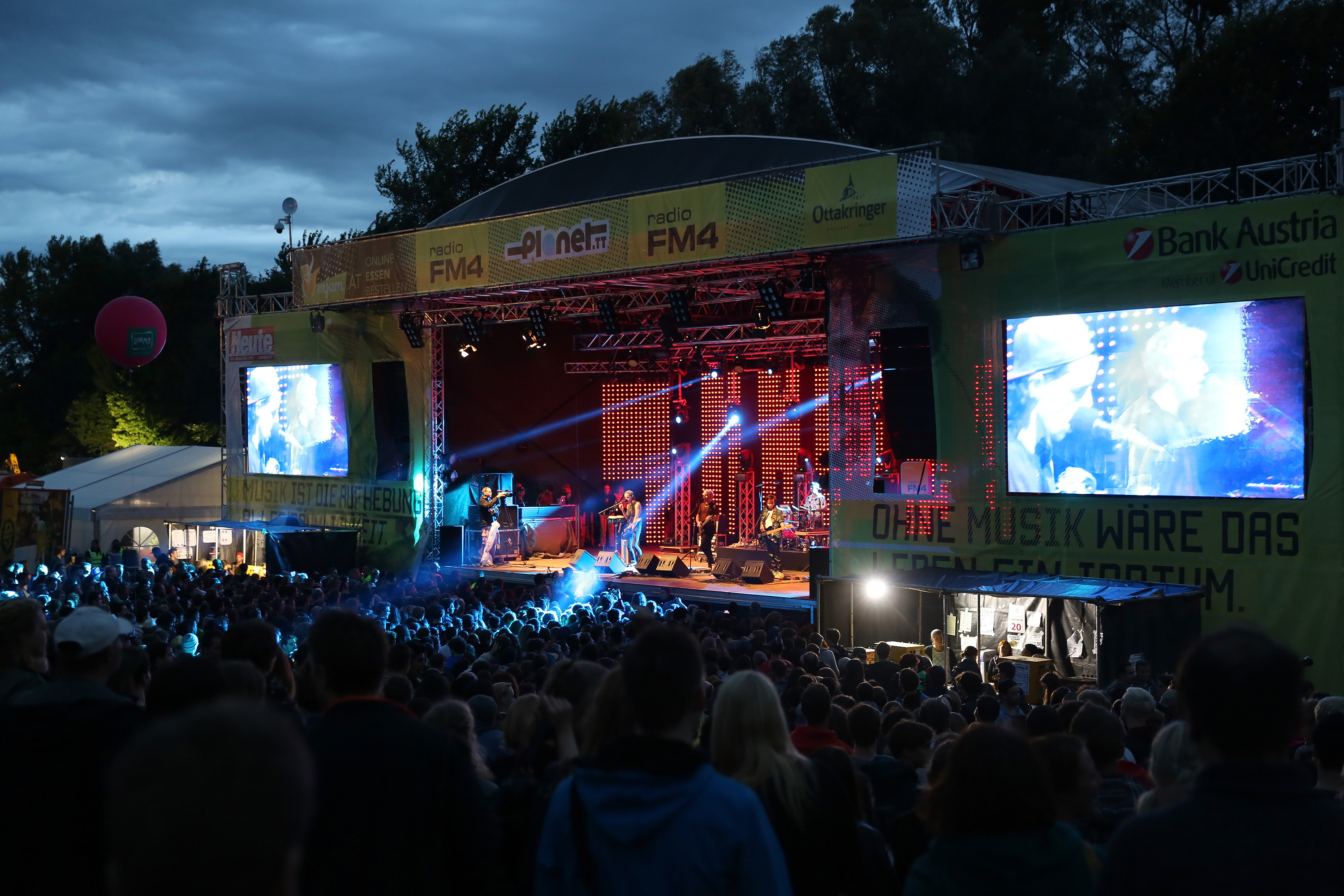 Bilderbuch at Donauinselfest 2014 in Vienna, Austria